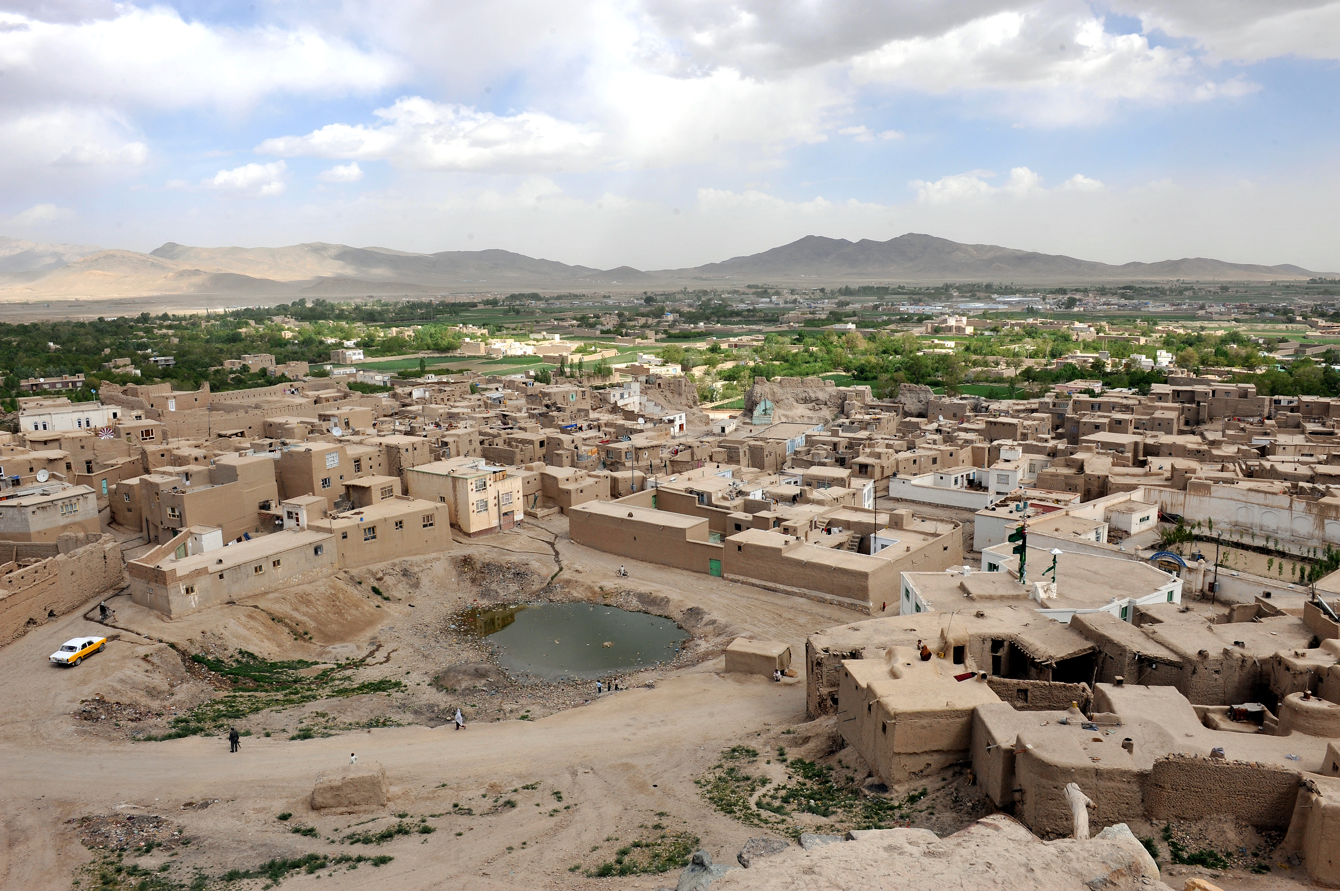 Members from Ghazni Provincial Reconstruction Team visited Old Ghazni City April 18, 2010, located in Ghazni Province, Afghanistan. (Joint Combat Camera Afghanistan; Photo by Tech. Sgt. James May)